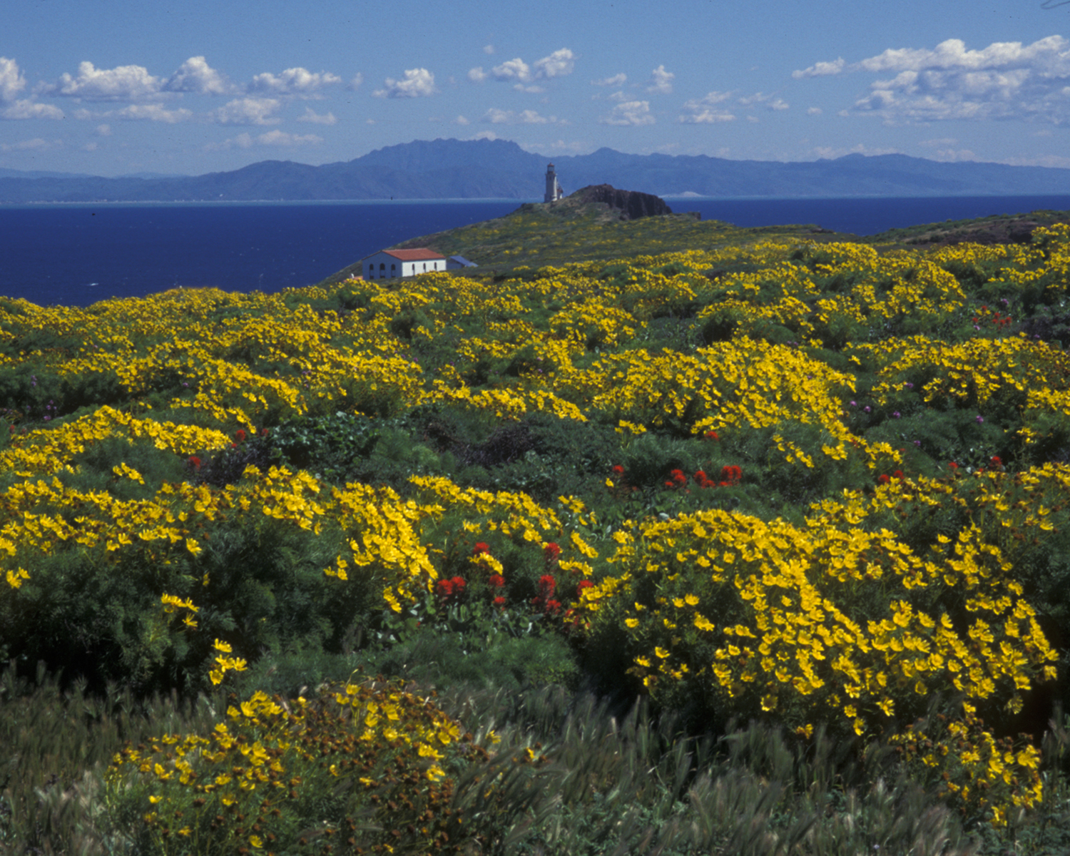 Fields of Coreopsis gigantea — Giant coreopsis. On Anacapa Island in California coastal sage and chaparral habitat, within Channel Islands National Park, Southern California. With the Anacapa Island Lighthouse, and the Santa Ynez Mountains in the backround, on the mainland of Santa Barbara County. Original Description: "The bright yellow bouquets of the giant coreopsis are so vivid they can sometimes be seen from the mainland".